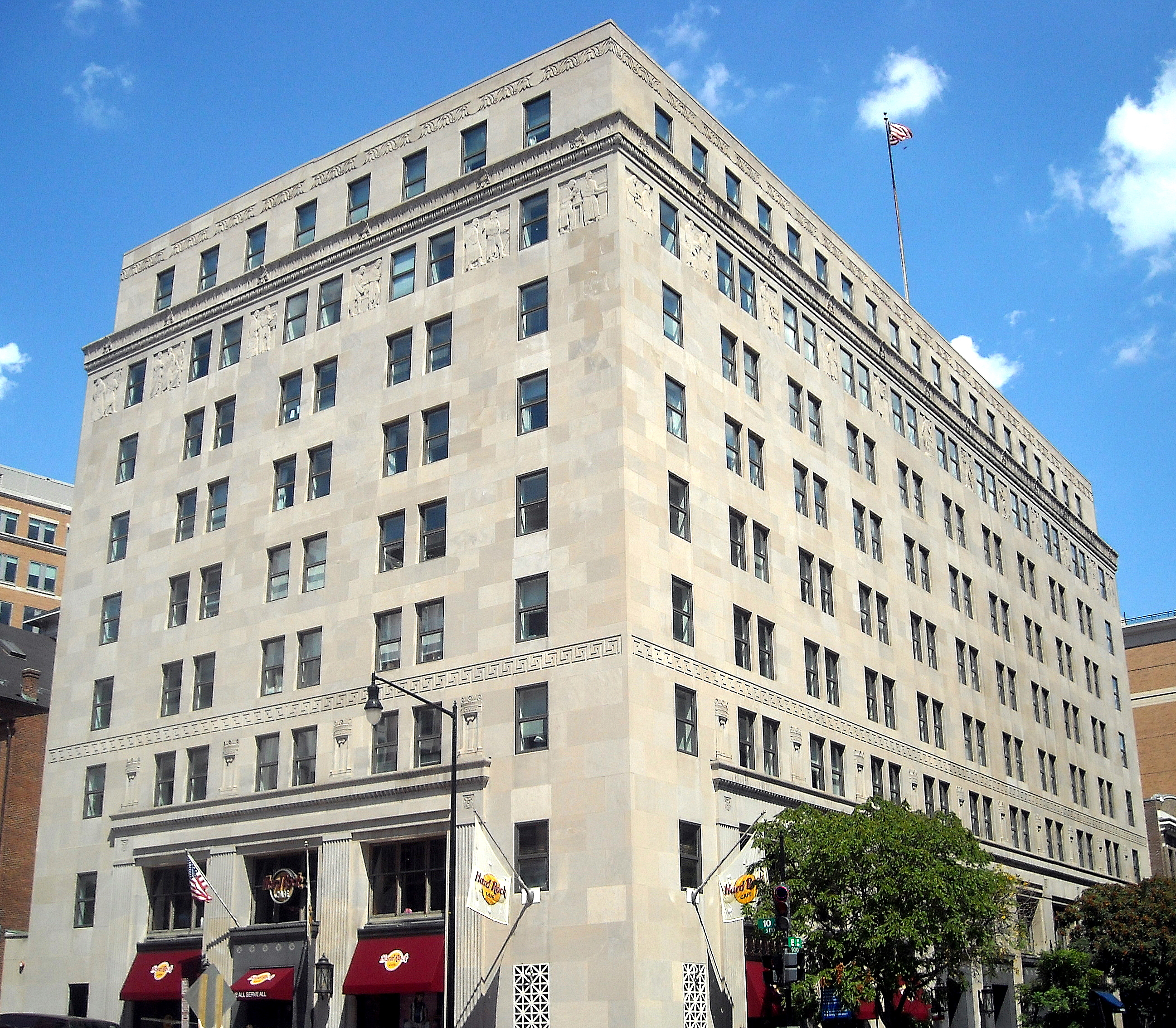 Federal Election Commission building at 999 E Street, NW in the Penn Quarter neighborhood of Washington, D.C., with Hard Rock Cafe on the first floor.